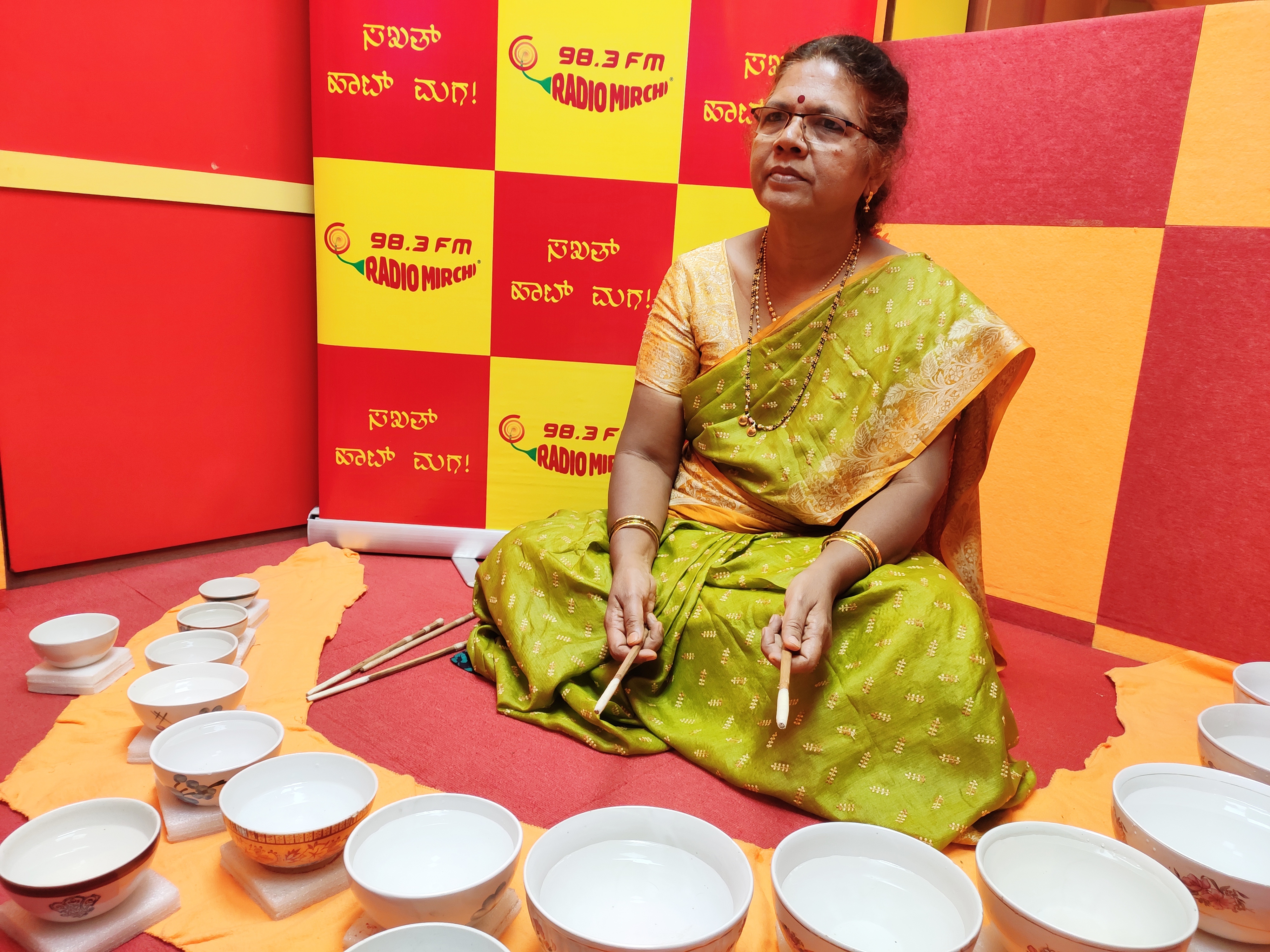 Jaltarang music concert by Vidushi Shashikala Dani at Radio Mirchi 98.3 FM